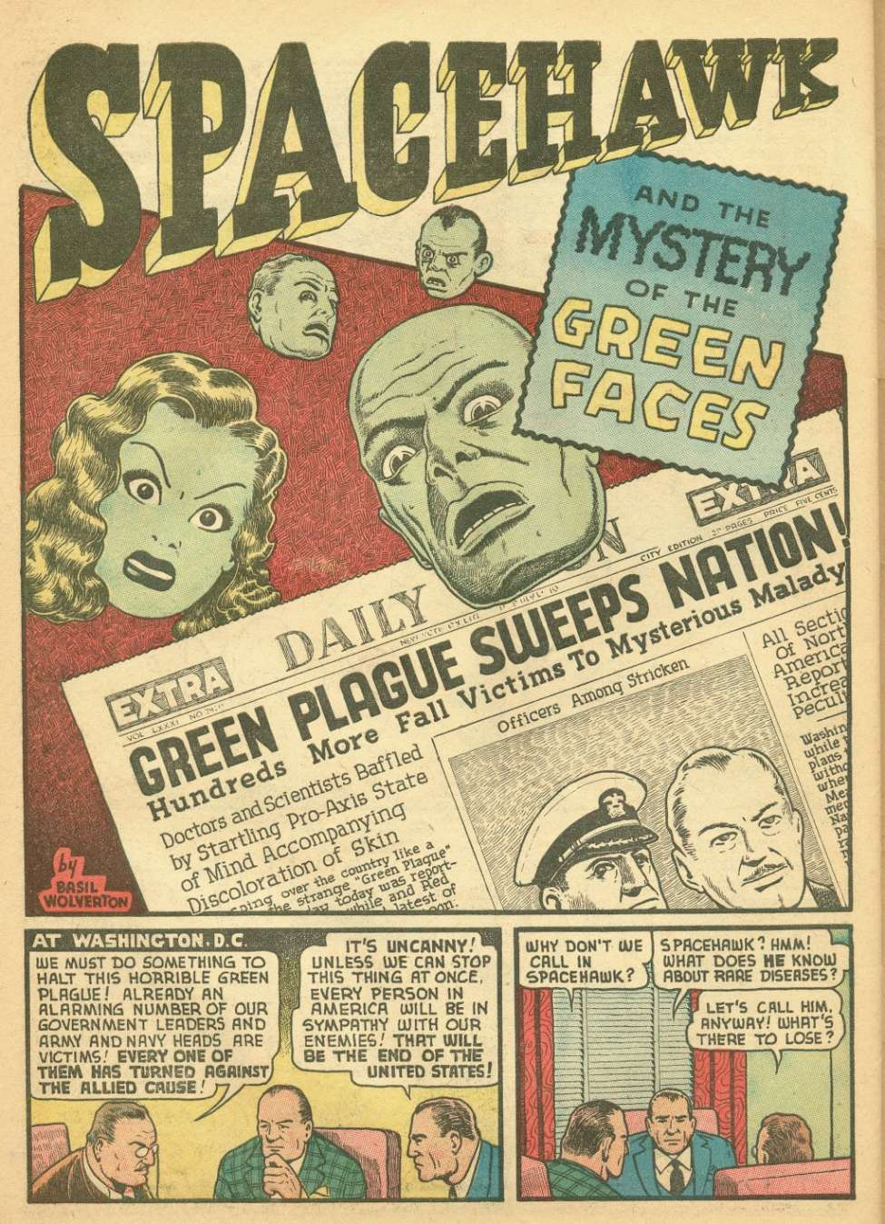 Comic page from Target Comics v3 7, art by Basil Wolverton